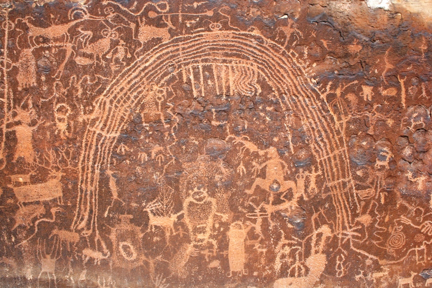 Detail of the Rochester Rock Art Panel in Emery County, Utah